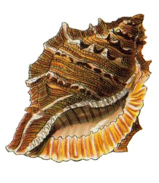 Drawing of the shell of Bufonaria crumena, synonym: Ranella crumena